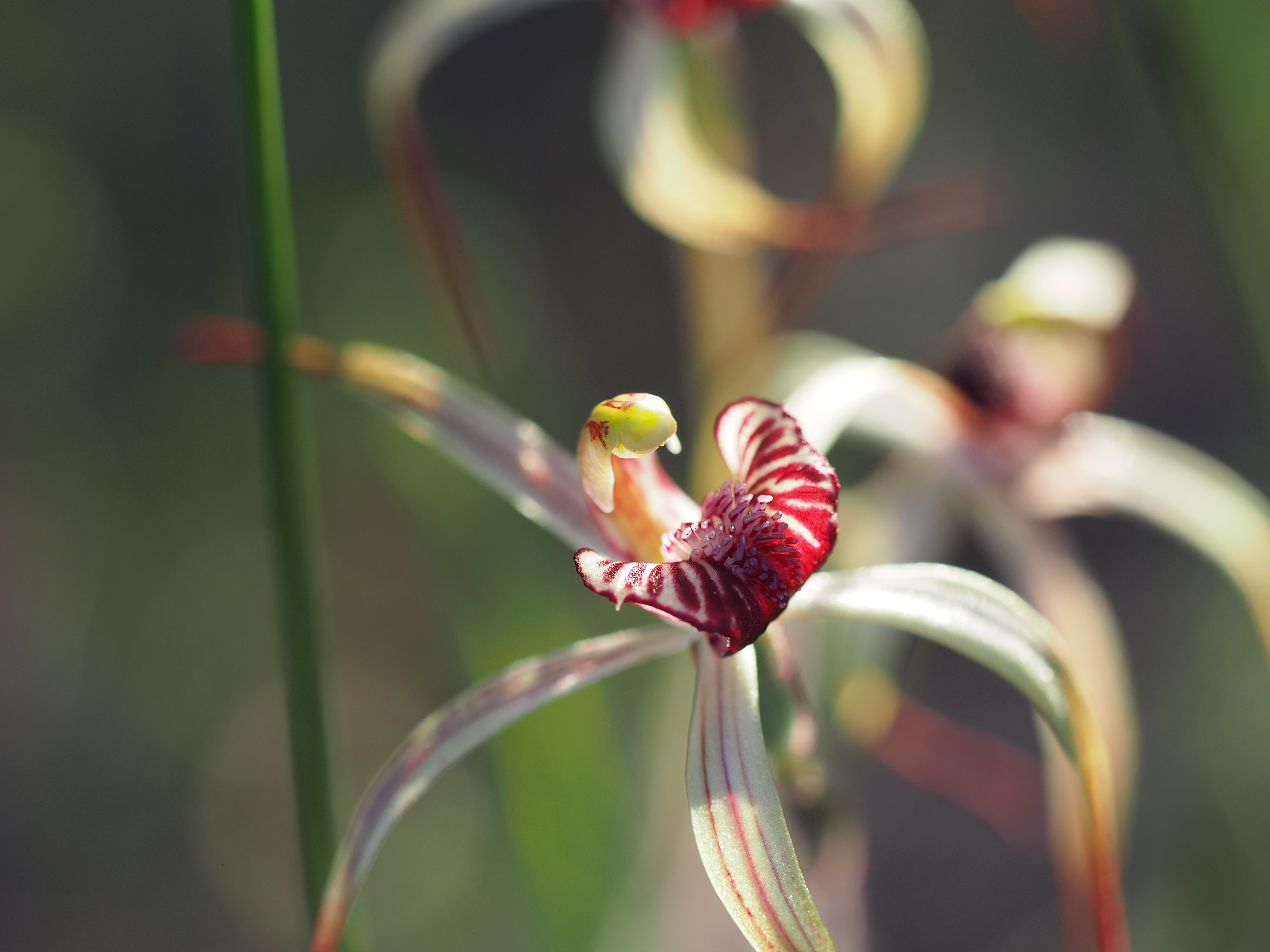 Caladenia radialis growing at the Hill River crossing on the Brand Highway north of Badgingarra in Western Australia